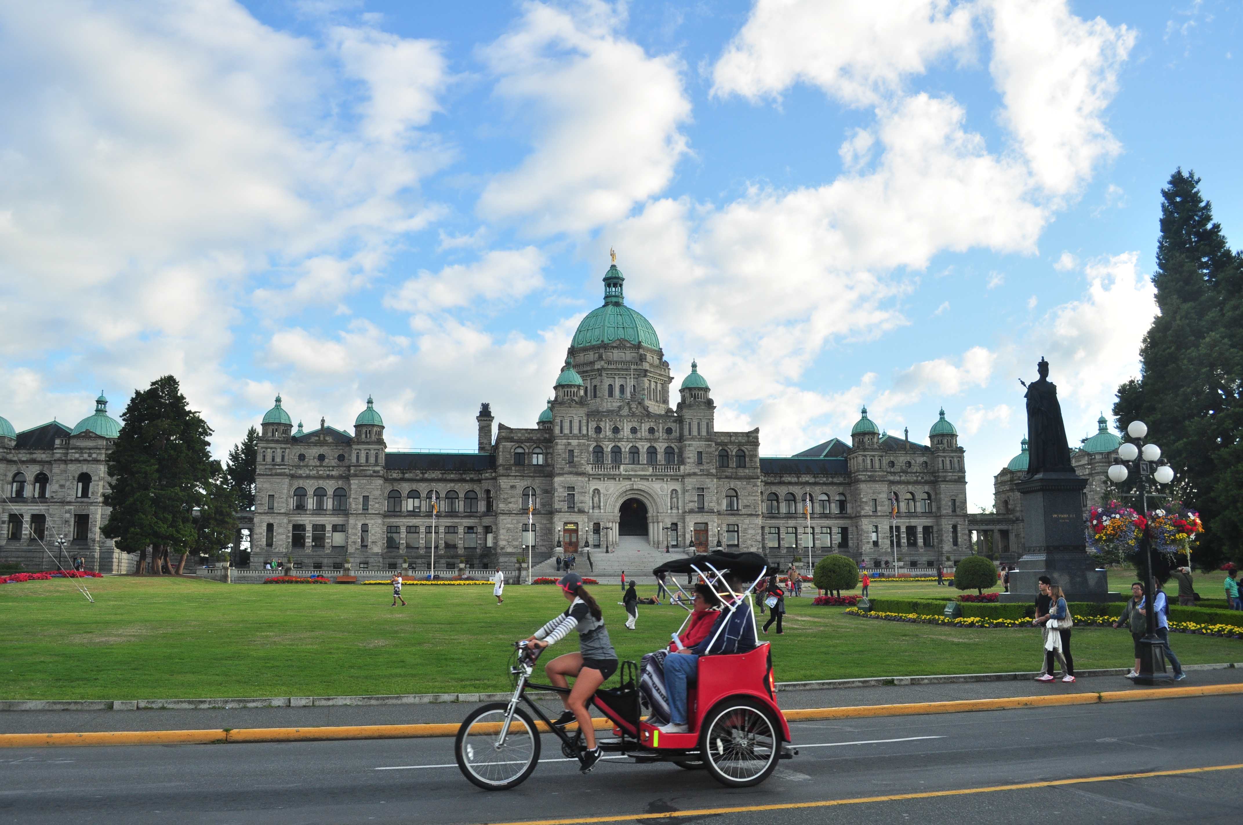 British Columbia Parliament Building, Victoria, British Columbia. Pedicab in foreground.